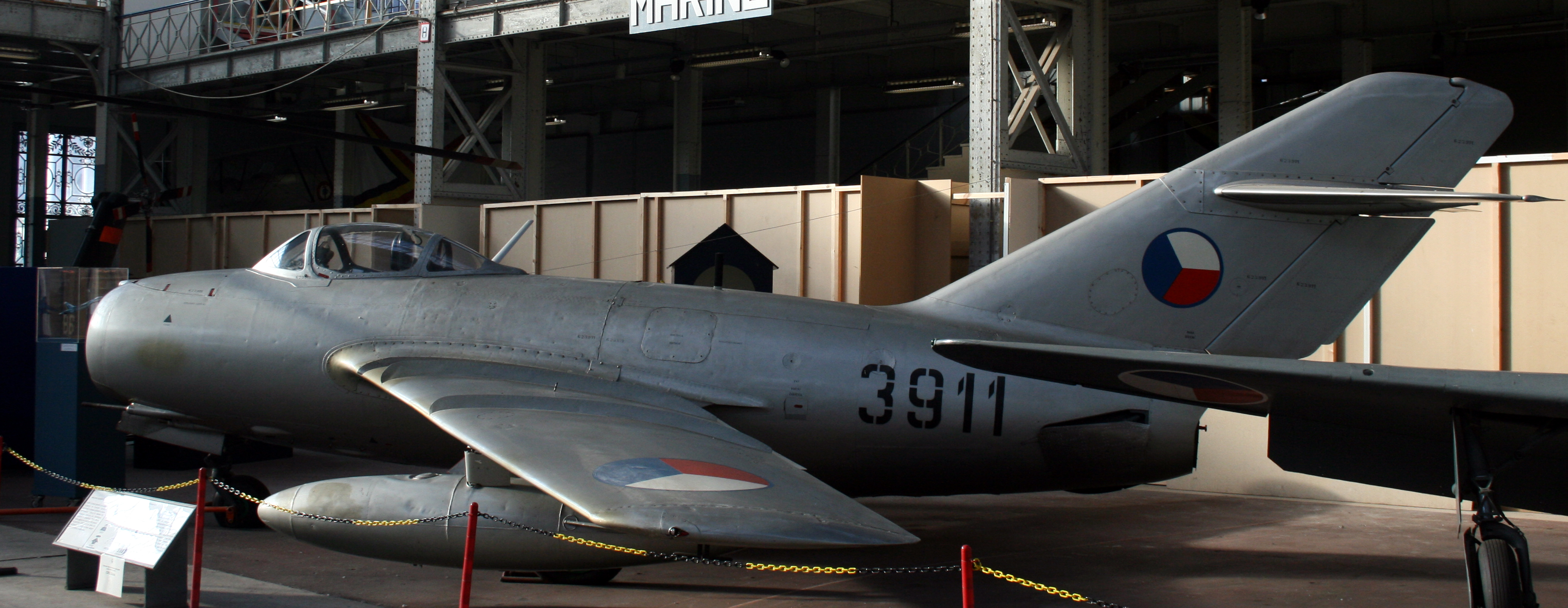 Mikoyan-Gurevich MiG-15bis (or Czech-made S.103)